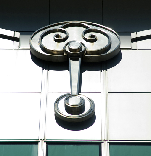 Ru-Yi symbol as an architectural motif on Taipei 101 in Taipei, Taiwan. (Alton Thompson) Alton 02:23, 29 August 2007 (UTC)